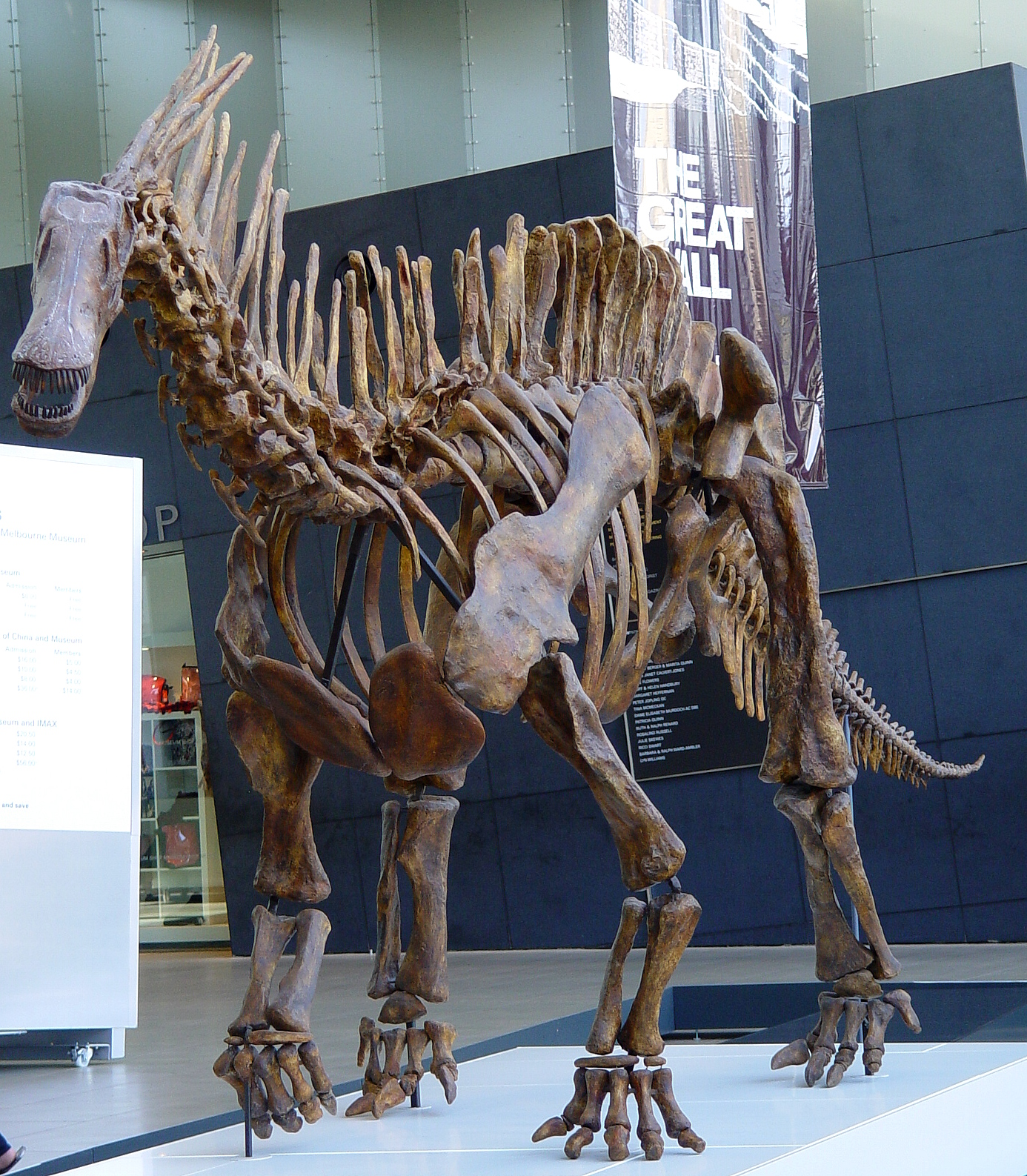 Amargasaurus lived in the Cretaceous Period, about 100 million years ago.Photo taken in Museum of Victoria (Melbourne, Victoria, Australia)